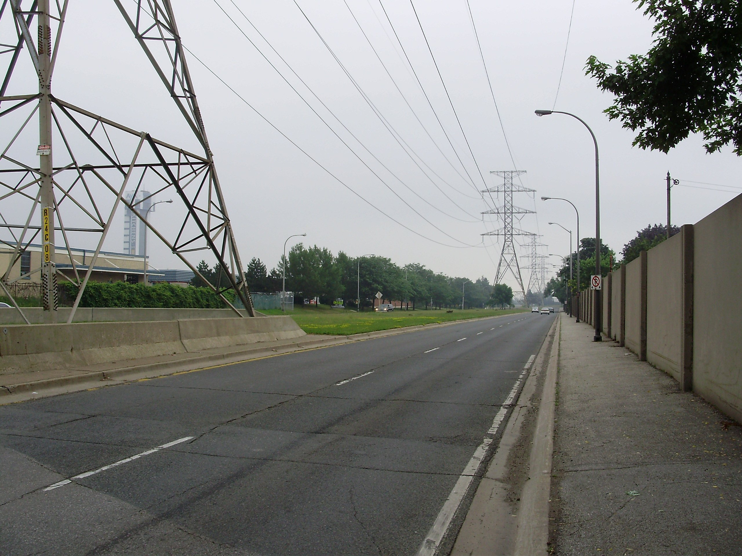 The Queensway (Peel Regional Road 20) in Mississauga, Canada, east of Dixie Road and west of the Etobicoke Creek, where its median is occupied by a Hydro corridor.